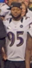 Baltimore Ravens running back Ray Rice is tackled by 2 San Francisco 49ers defensive players during Super Bowl XLVII.